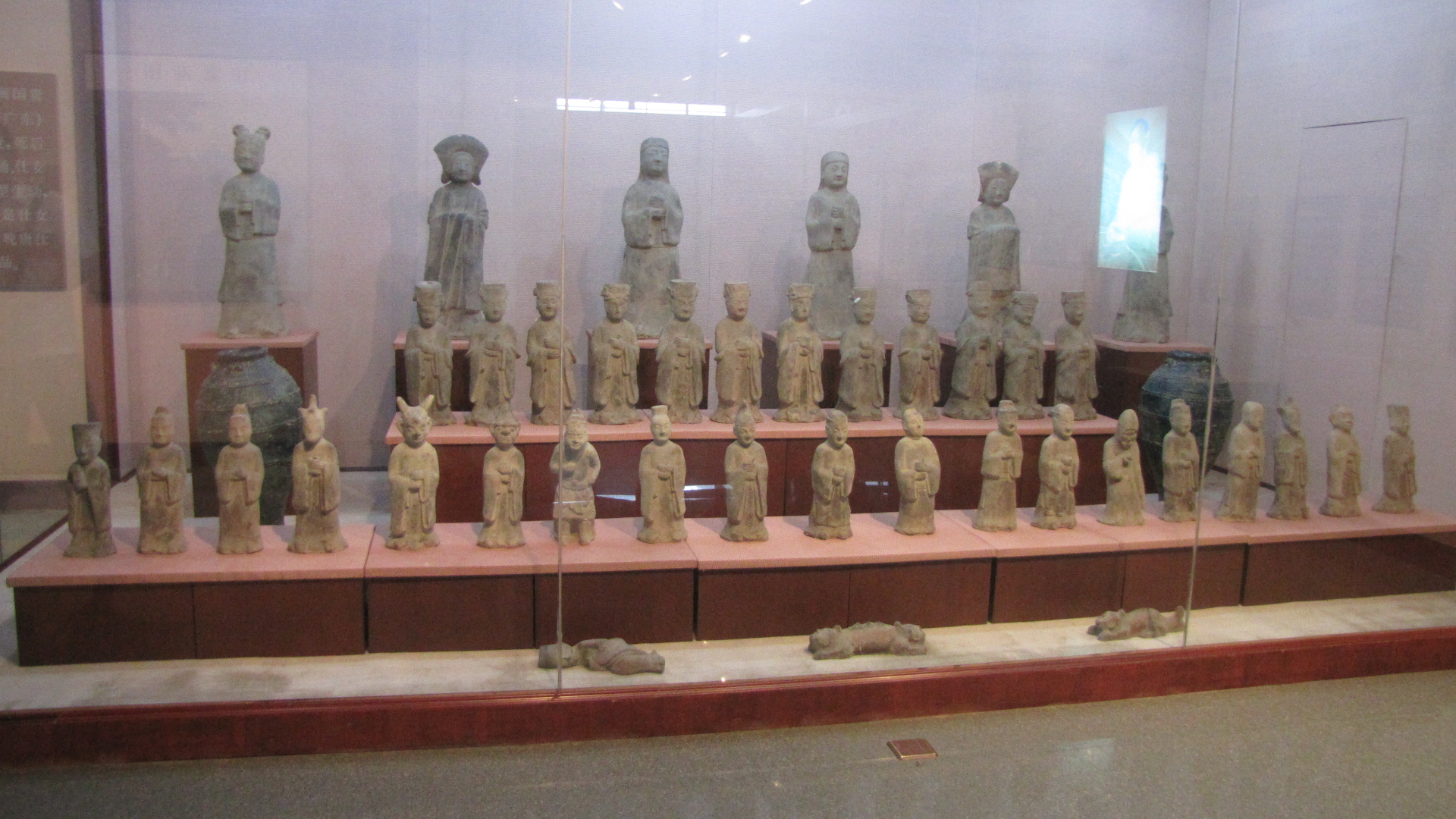 A set of Min (Five Dynasties and Ten Kingdoms) terracotta figurines from Liu Hua Tomb, excavated in Fuzhou